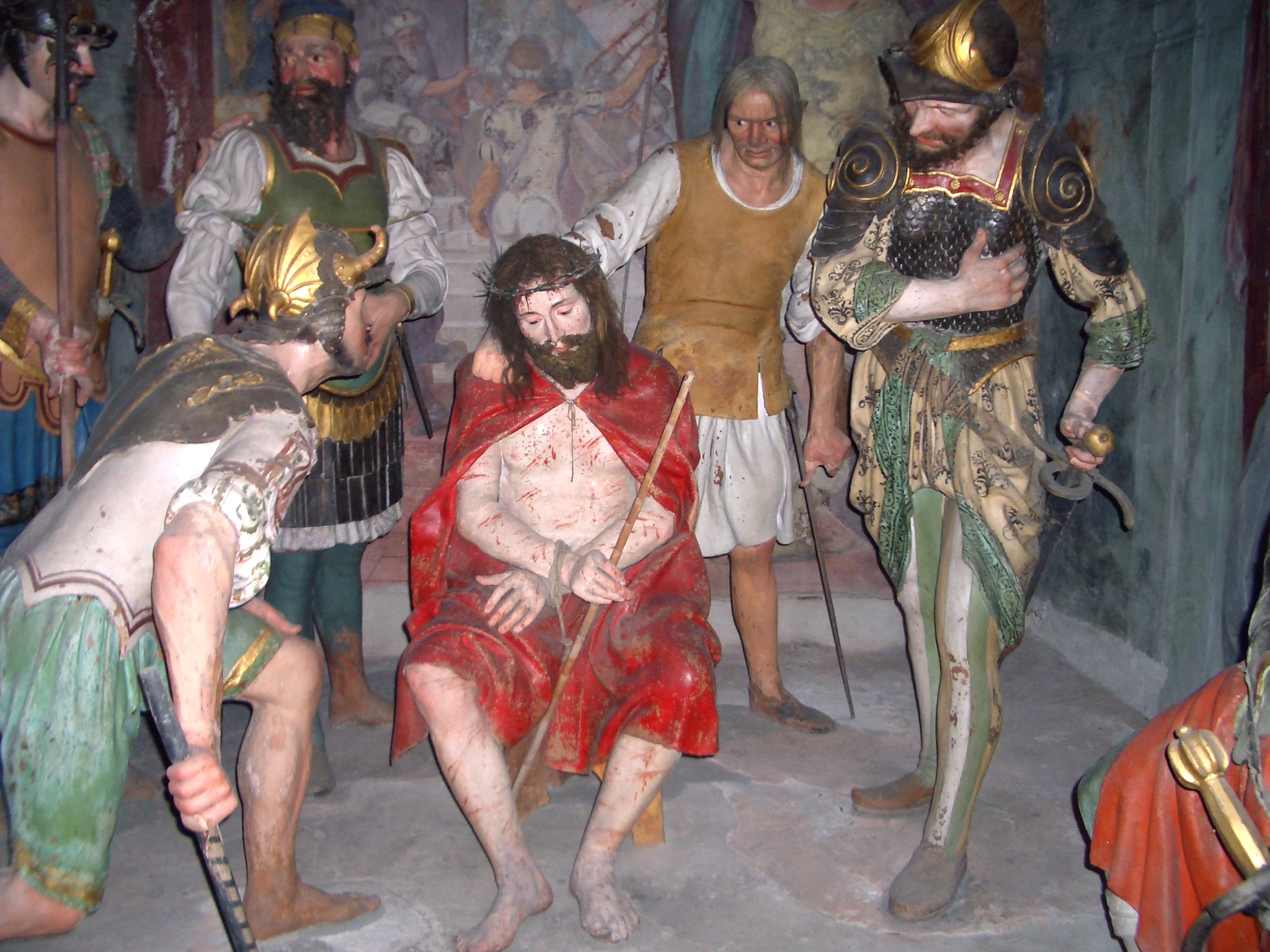 View of a chapel at Sacro Monte di Varallo, Varallo Sesia (VC), Italy Giovanni d’Enrico, Mocking of Christ, (detail), polychrome clay statues ca. 1607, Chapel XXXI